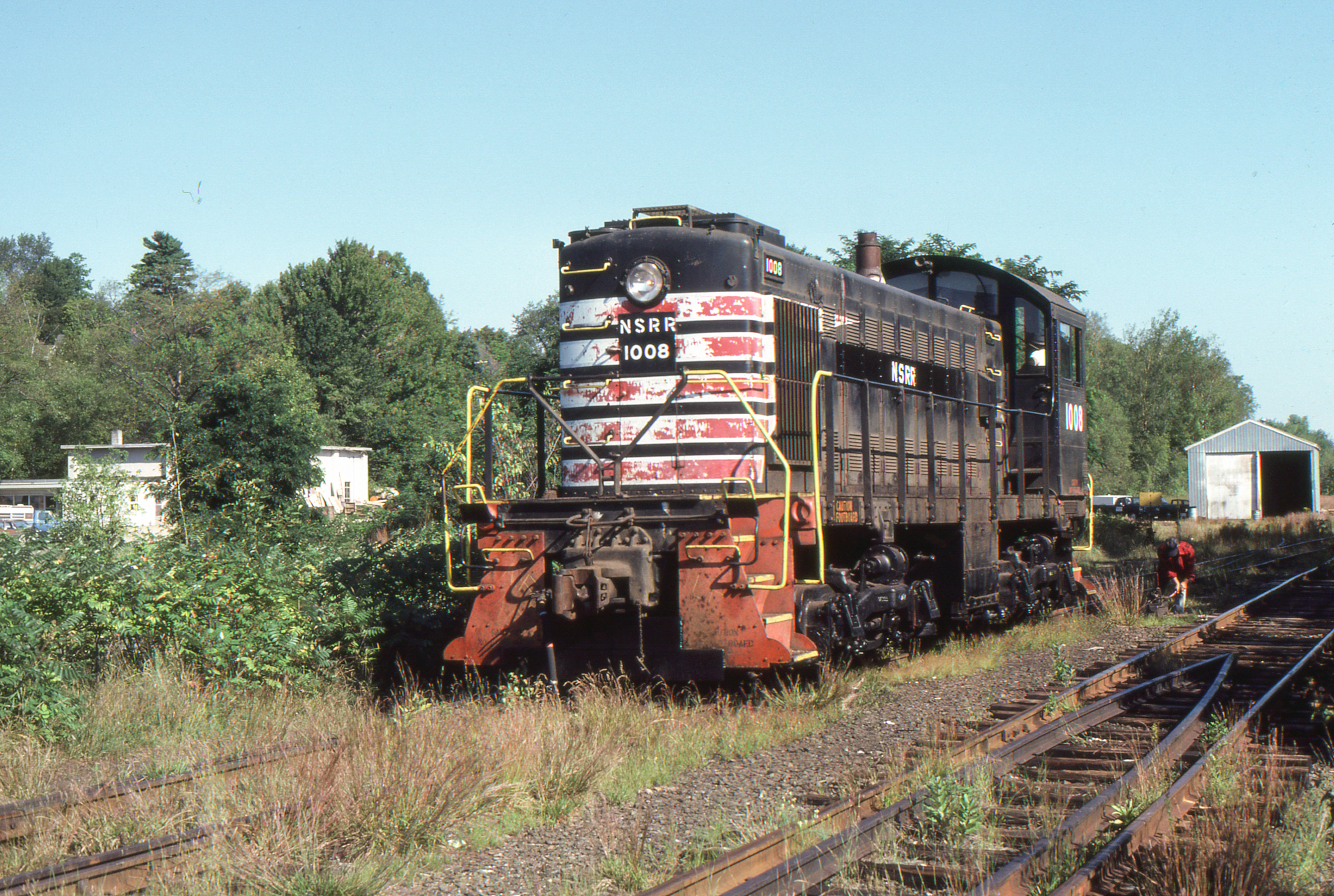 New England Southern Alco S1 1008 still lettered up for interrim operator North Straford Railroad at Lakeport, NH on August 21, 1981.